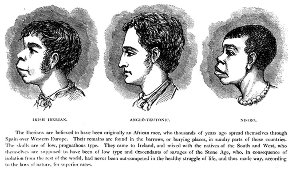 An illustration from the H. Strickland Constable's Ireland from One or Two Neglected Points of View shows an alleged similarity between "Irish Iberian" and "Negro" features in contrast to the higher "Anglo-Teutonic." The accompanying caption reads "The Iberians are believed to have been originally an African race, who thousands of years ago spread themselves through Spain over Western Europe. Their remains are found in the barrows, or burying places, in sundry parts of these countries. The skulls are of low prognathous type. They came to Ireland and mixed with the natives of the South and West, who themselves are supposed to have been of low type and descendants of savages of the Stone Age, who, in consequence of isolation from the rest of the world, had never been out-competed in the healthy struggle of life, and thus made way, according to the laws of nature, for superior races."